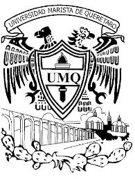 escudo